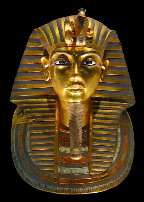 The golden death mask of the Tutankhamun at The Egyptian Museum in Cairo.